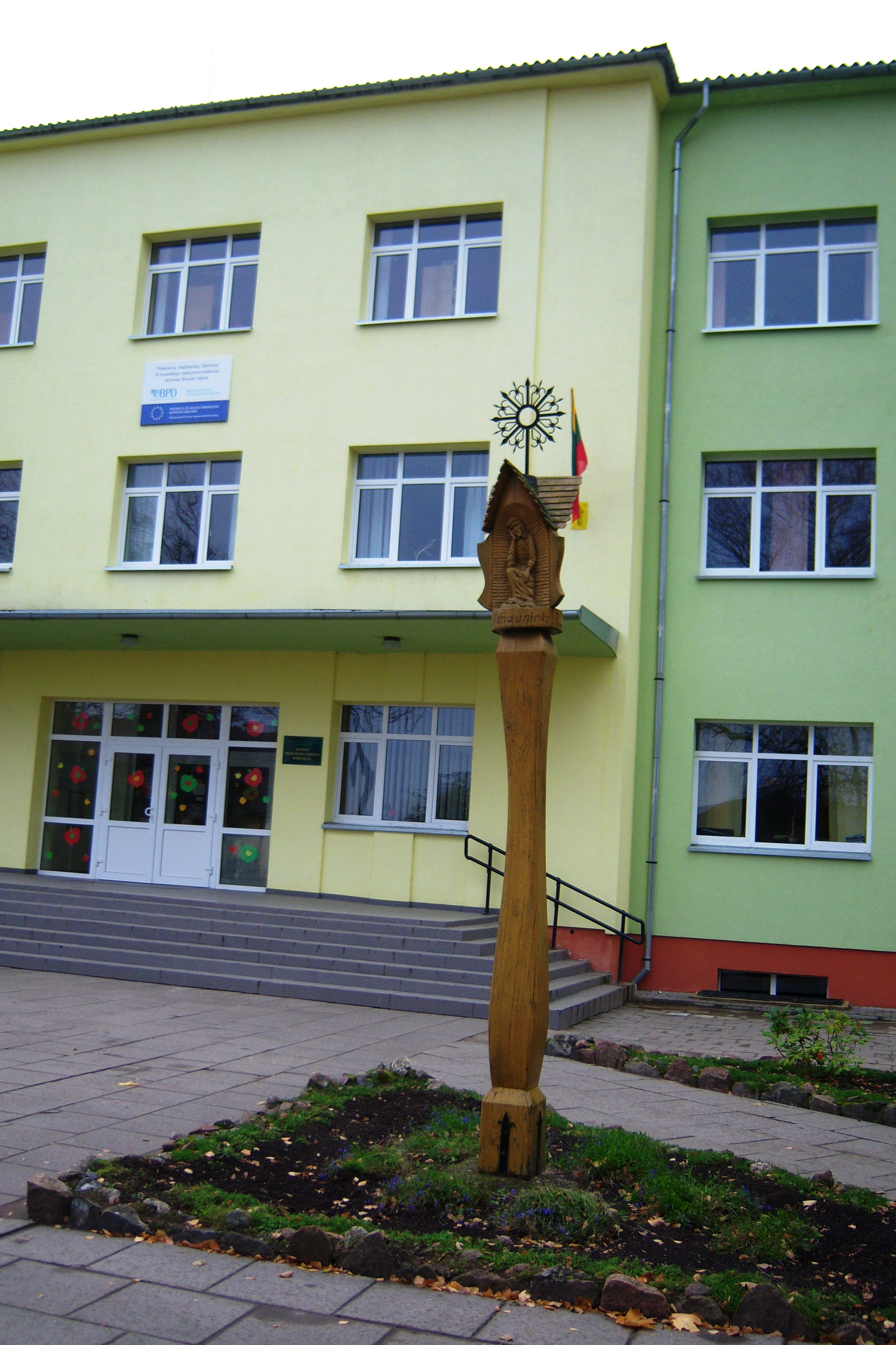 Skuodas, P. Žadeikis gymnasium, facade, Lithuania